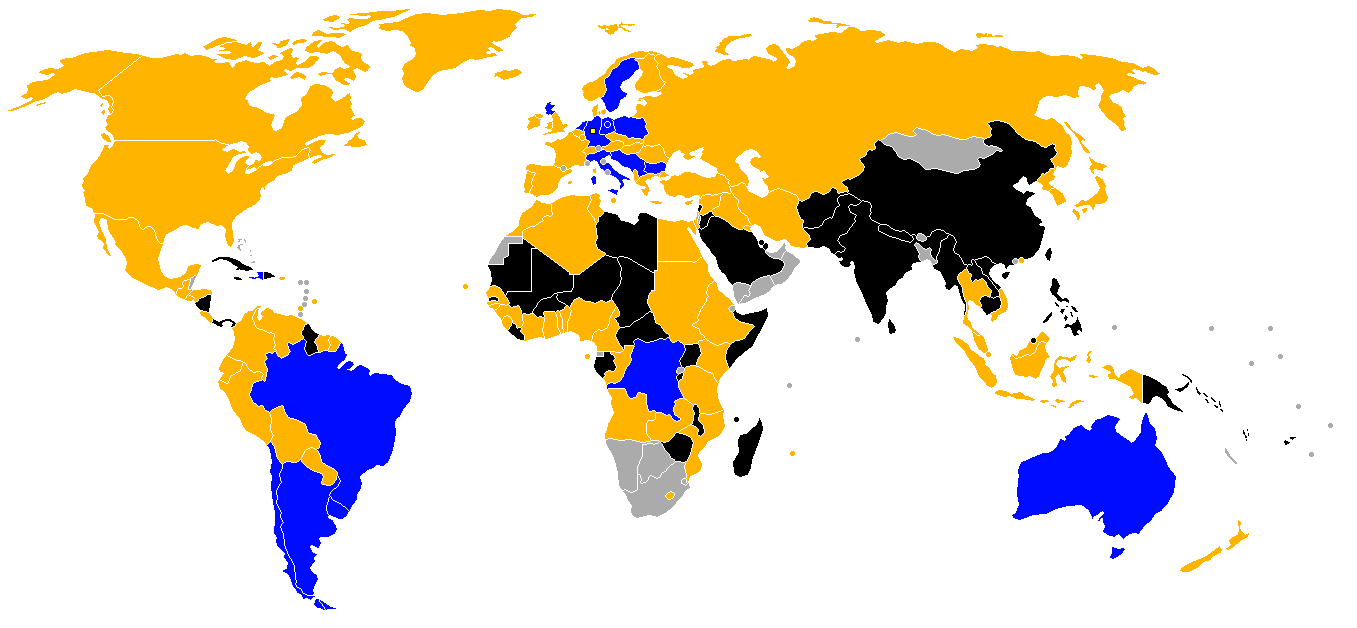 Status of countries with respect to 1974 FIFA World Cup: Qualified for World Cup finals Failed to qualify for World Cup finals Did not enter World Cup Not an associate member of FIFA